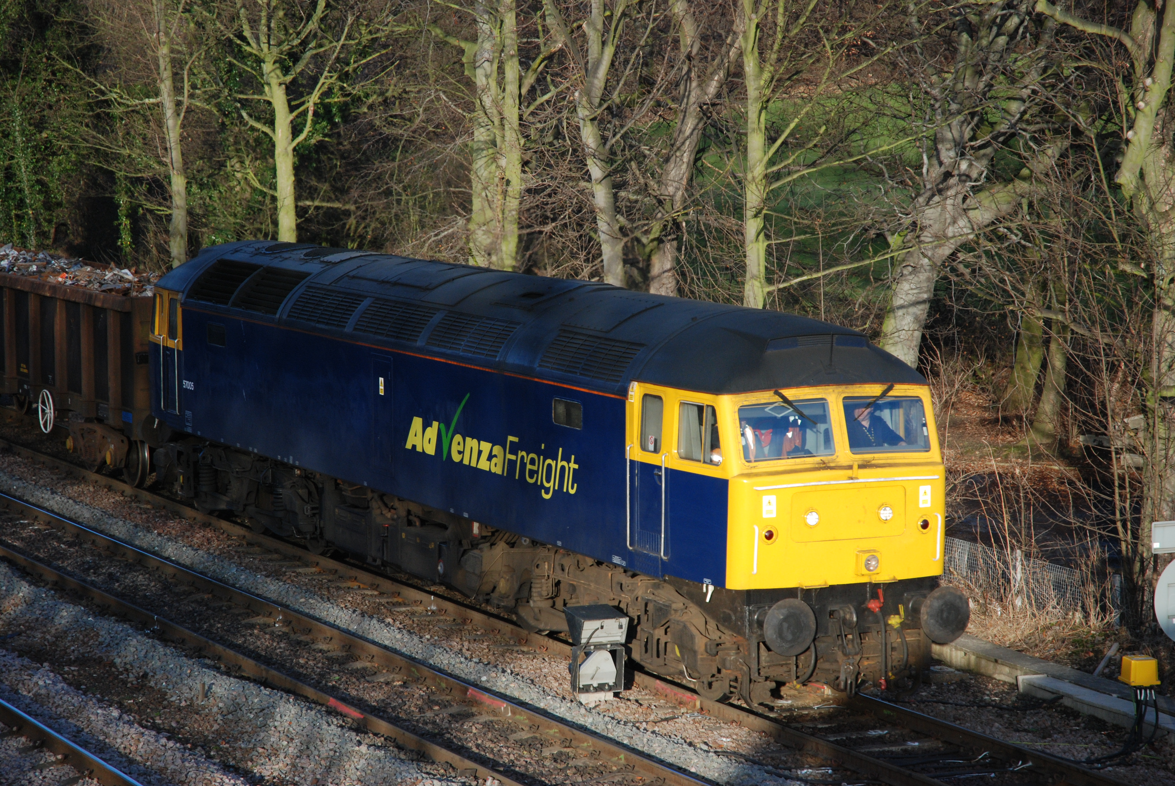 Advenza Freight Class 57 No. 57005 working a southbound scrap train through Chesterfield.